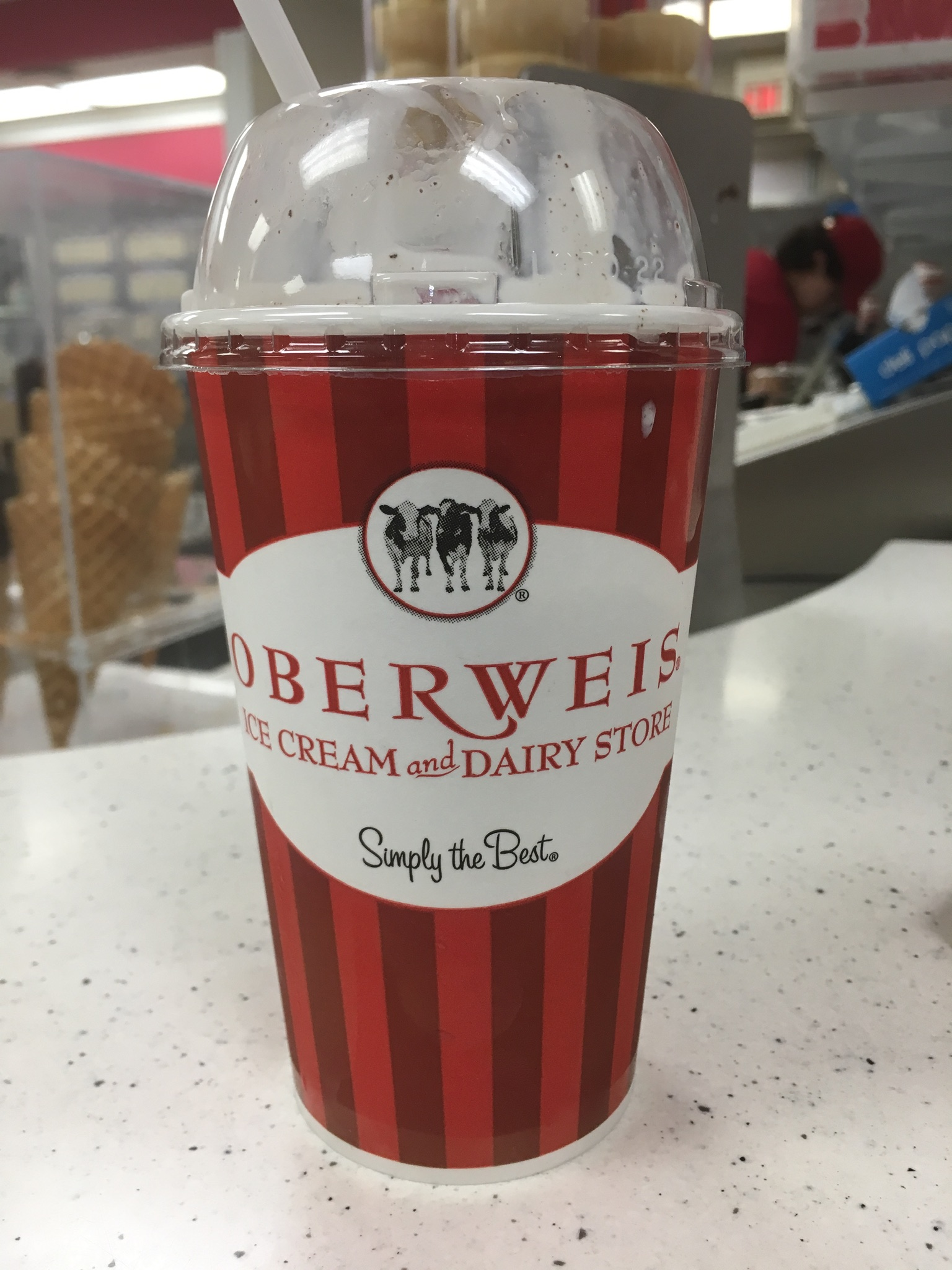 An Oberweis Frostbite treat at a location in Oswego, Illinois